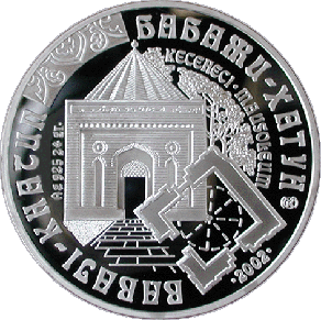 Coin of Kazakhstan